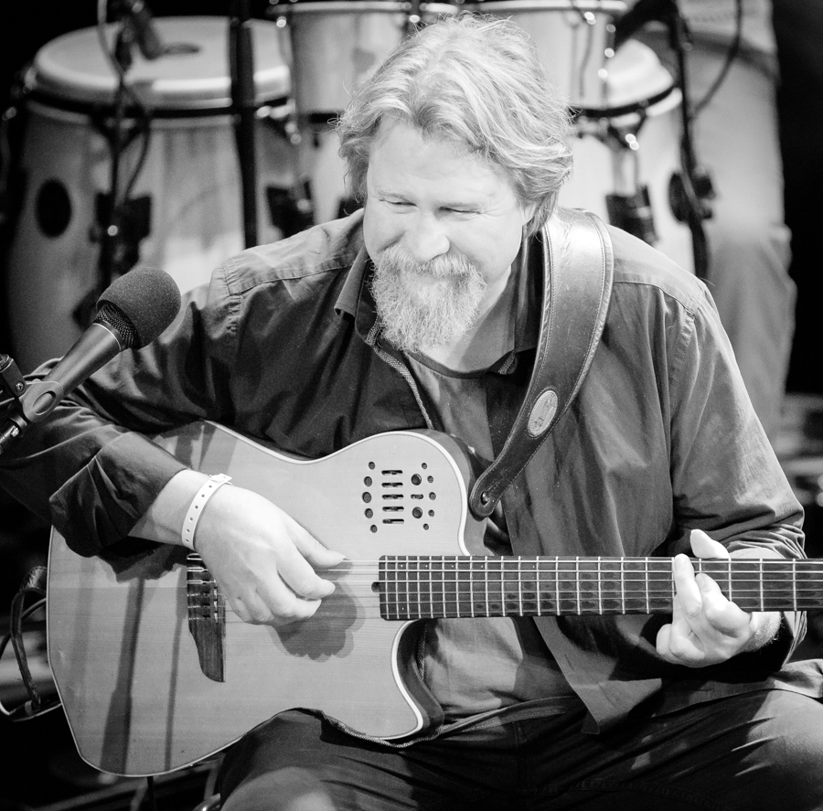 Tom Lund with Desafinado at Victoria Teater. The concert was part of Oslo Jazzfestival 2018 and took place on 15. August 2018 in Oslo. Lineup: Anne Marie Giørtz (vocal) Morten Halle (saxophone) Sveinung Hovensjø (bass guitar) Bugge Wesseltoft (piano) Celio de Carvalho (percussion) Kenneth Ekornes (drums) Tom Lund (Godin ACS-SA guitar)